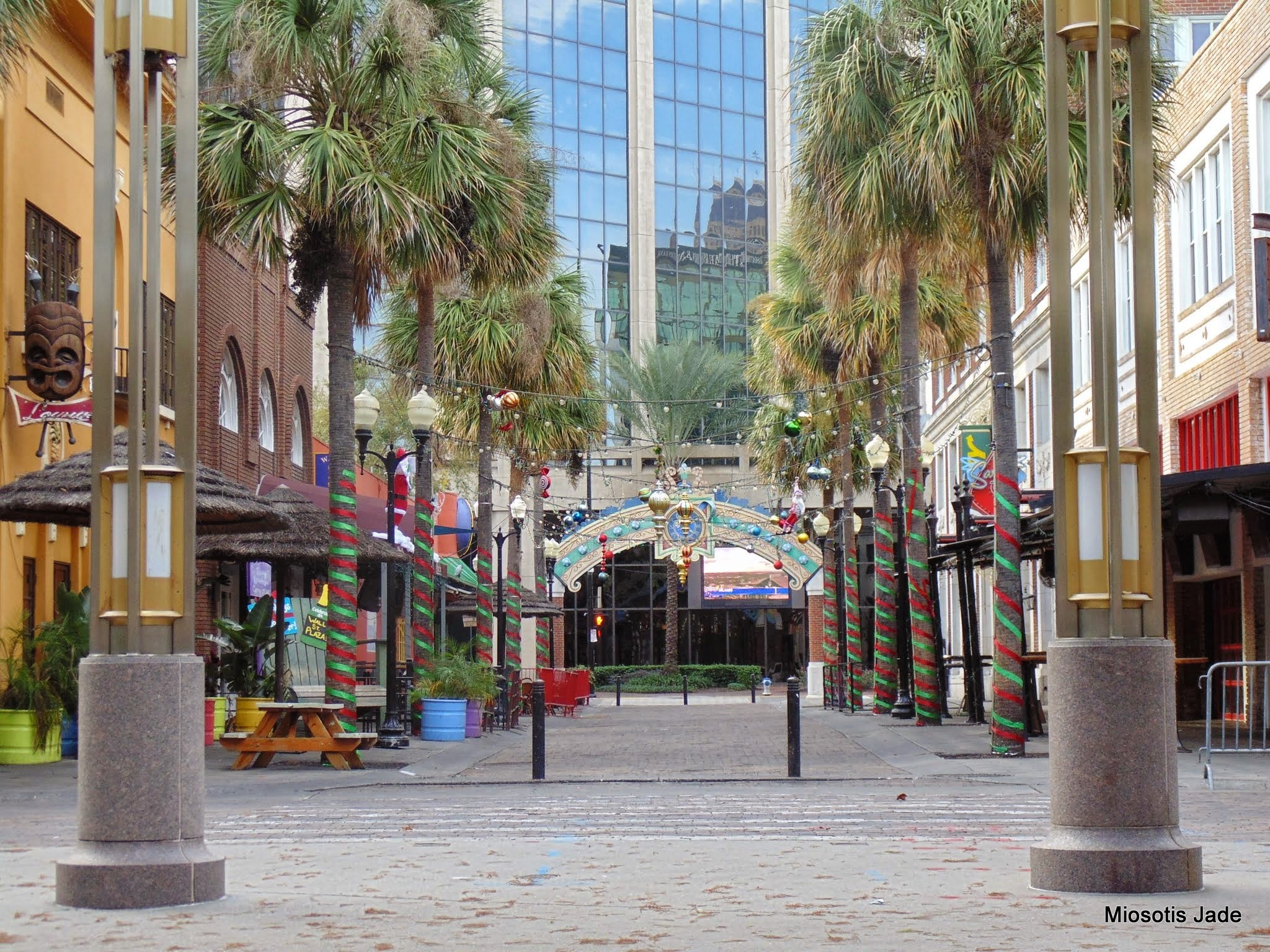 downtown